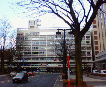 Morioka City Hall in Iwate Preferture, Japan